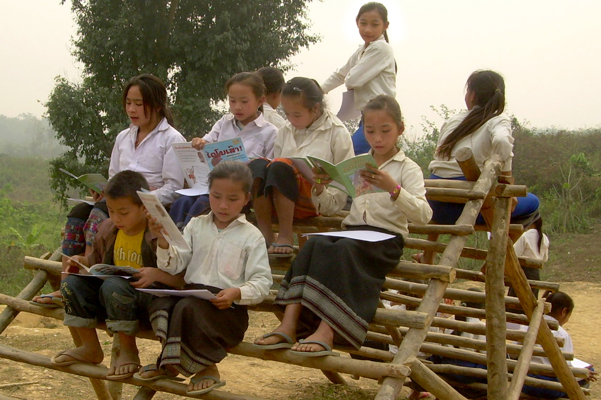 Students at a Lao primary school enjoy reading what is, for many, their very first book. They are sitting outside their school, on handmade playground equipment. The picture was taken at a school book party in Laos, sponsored by Big Brother Mouse.